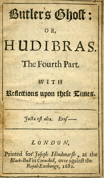 Titlepage of Butler's Ghost, or Hudibras The Fourth Part, 1682.